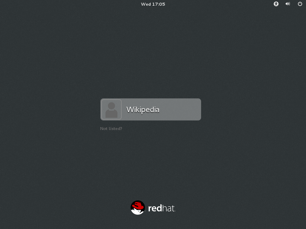 Login screen for RHEL 7